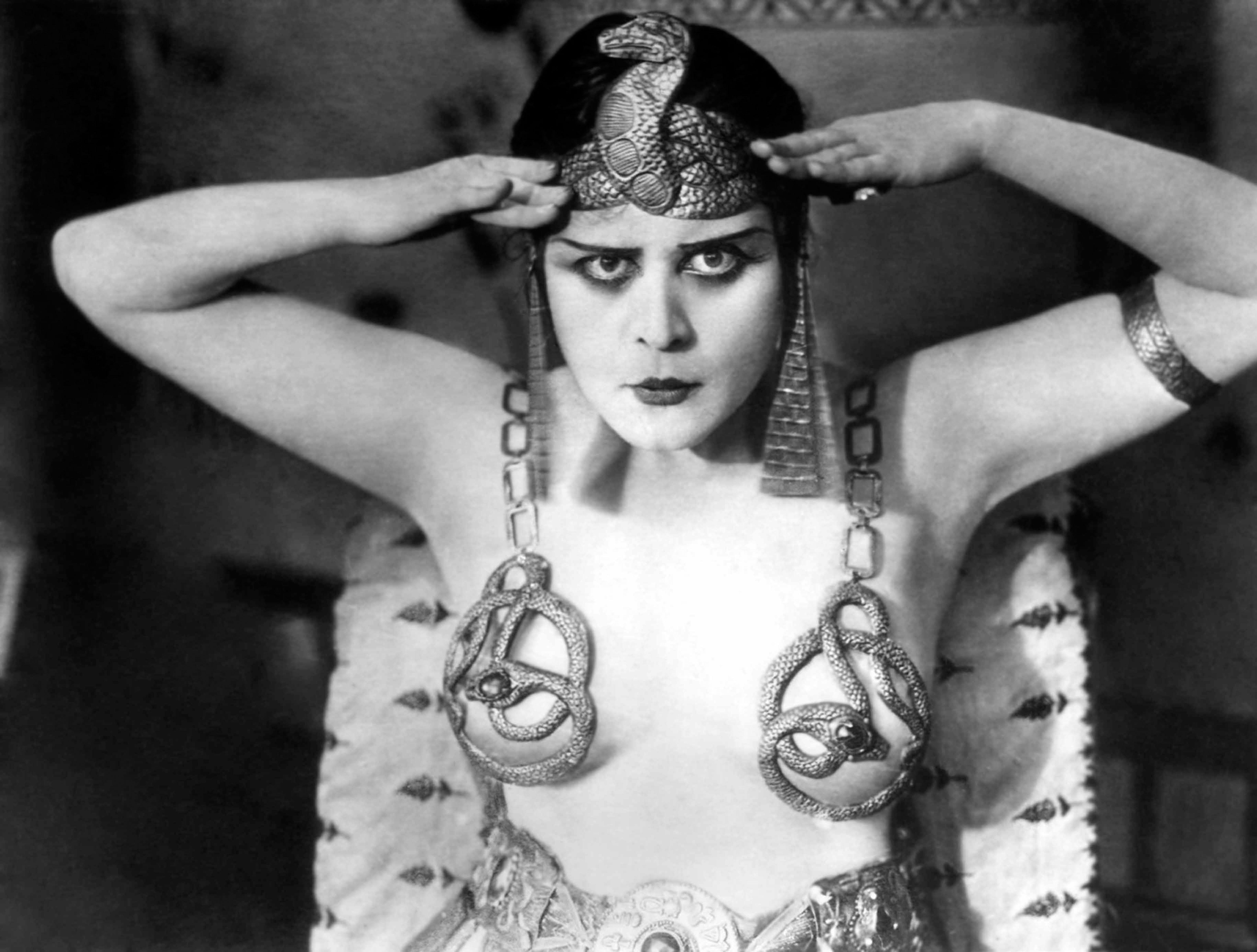 Publicity photo of Theda Bara for the American film Cleopatra (1917).